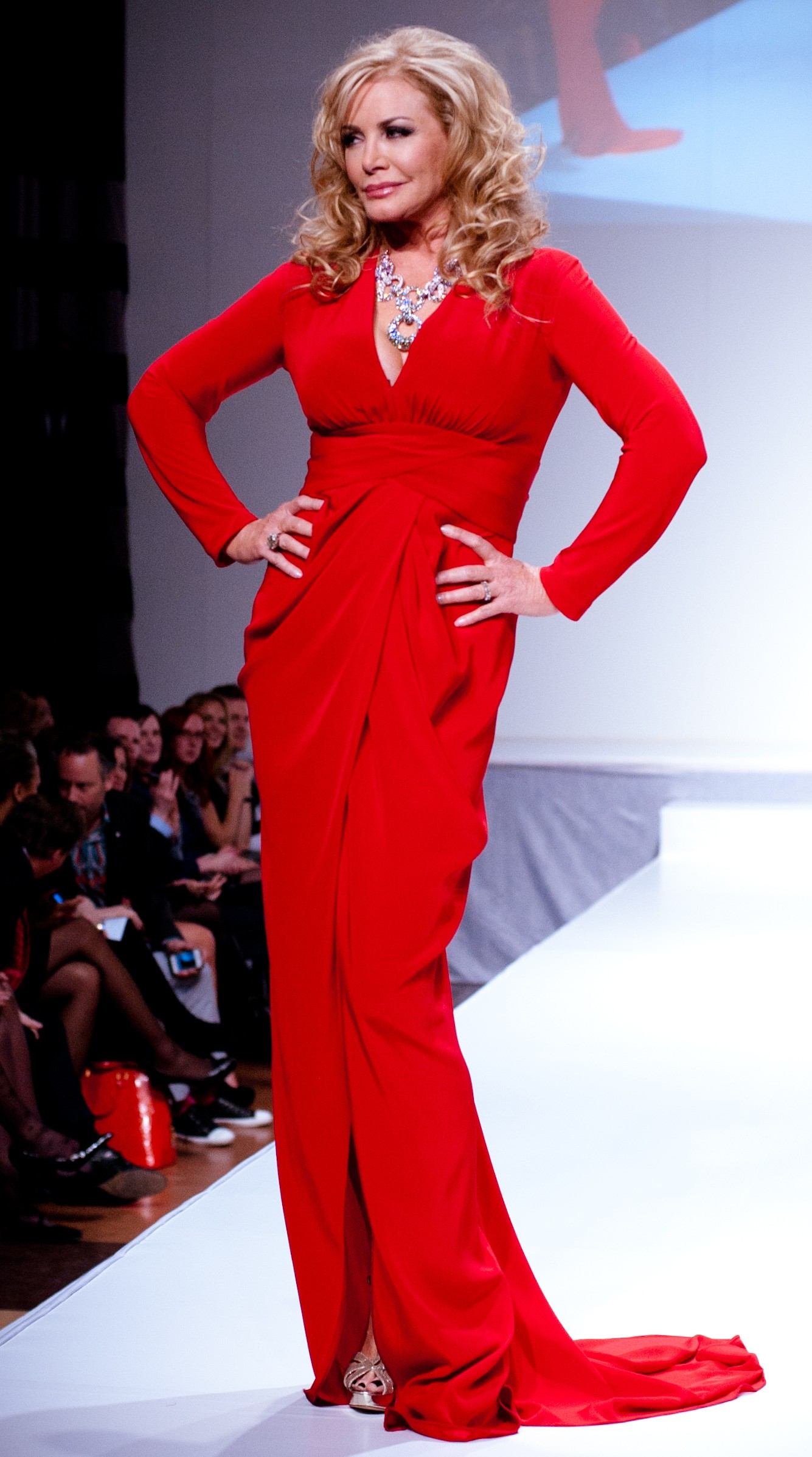 In 2012, The Heart Truth® marks a decade of commitment to women's heart health. Starting with February's American Heart Month and throughout the year, the National Heart, Lung, and Blood Institute (NHLBI) reaffirms its commitment to increasing awareness about heart disease among women and helping women take steps to reduce their own personal risk of developing heart disease. thehearttruth.ca thehearttruth + Photography by Jason Hargrove This set is available with a Creative Commons Attribution license for non-commercial use for media and bloggers alike. High resolution commercial use licenses can be purchased on request :)